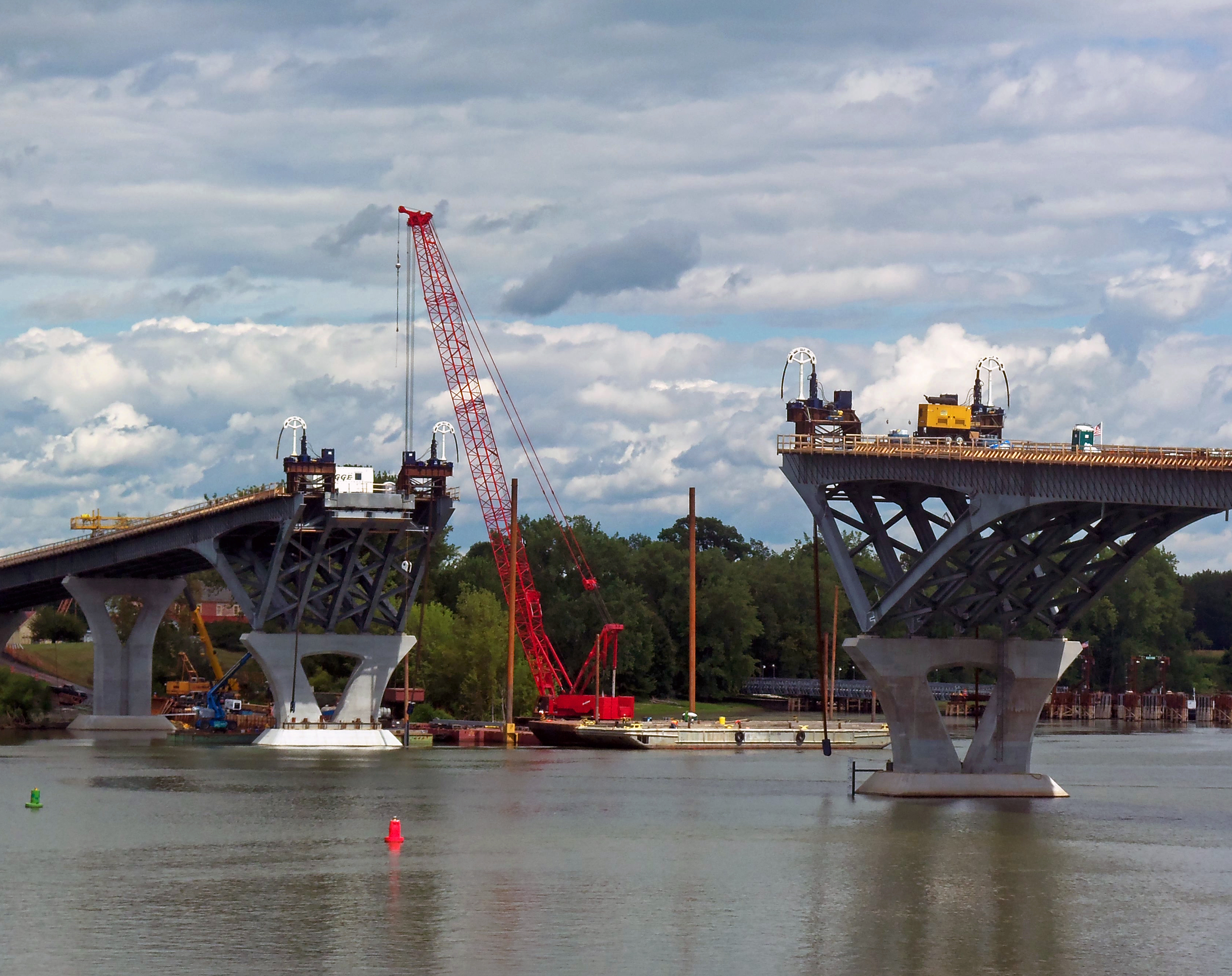 New Crown Point Bridge under construction between states of New York and Vermont, USA